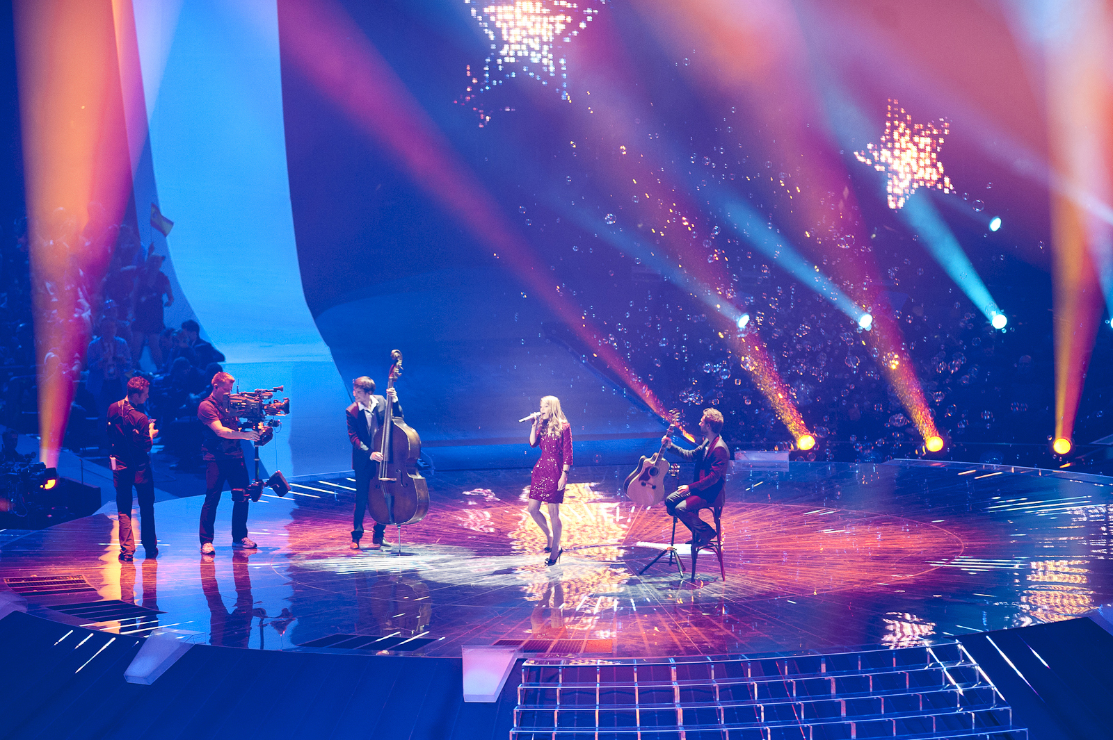 Anna Rossinelli from Switzerland performing "In Love for a While" at Eurovision Song Contest 2011 in Düsseldorf